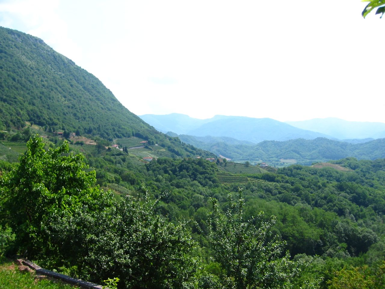 Hills and Vineyards in the DOCG Ramandolo